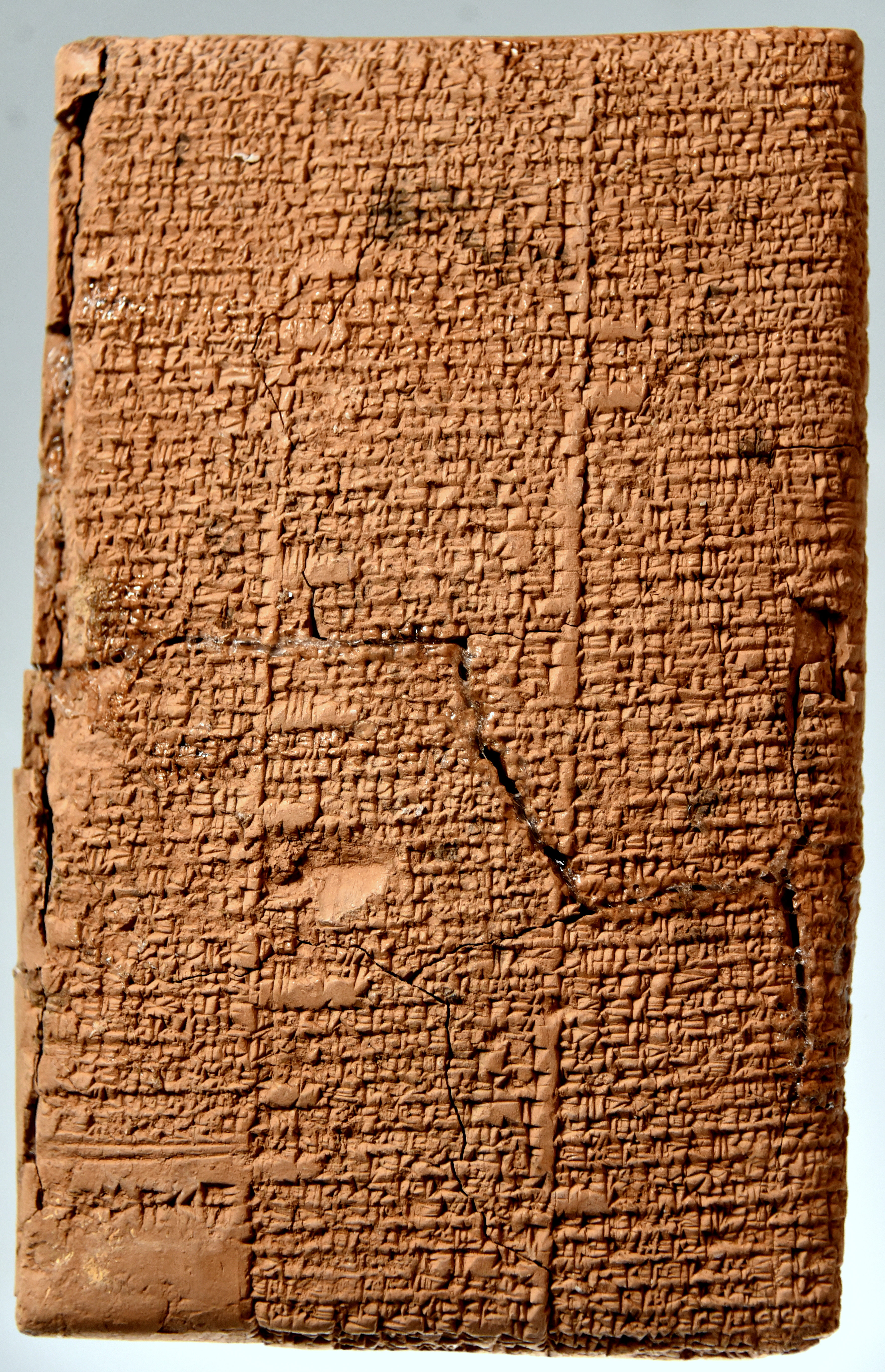 Reverse. Clay tablet. The story of Lugalbanda in the Mountain Cave. Lugalbanda was a king of Uruk and is listed in the Sumerian King List as the second king of Uruk. Old-Babylonian period, 2003-1595 BCE. Purchase. From southern Iraq; precise provenance unknown. Sulaymaniyah Museum, Iraqi Kurdistan.